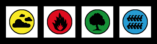 Four Elements Bar. Derivate work from File:Zywioly03.png